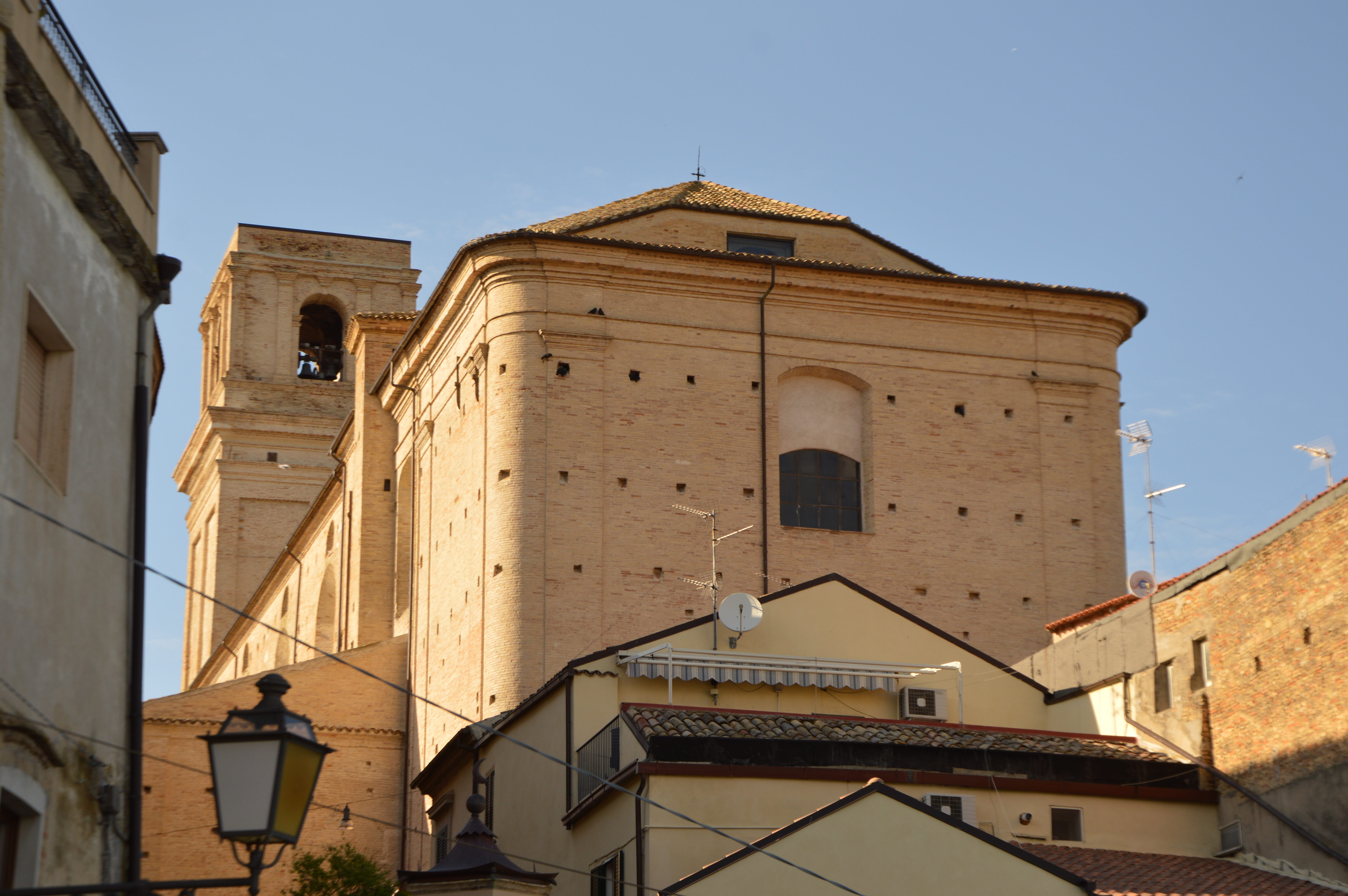 Vasto, chiesa di Santa Maria Maggiore: retro.